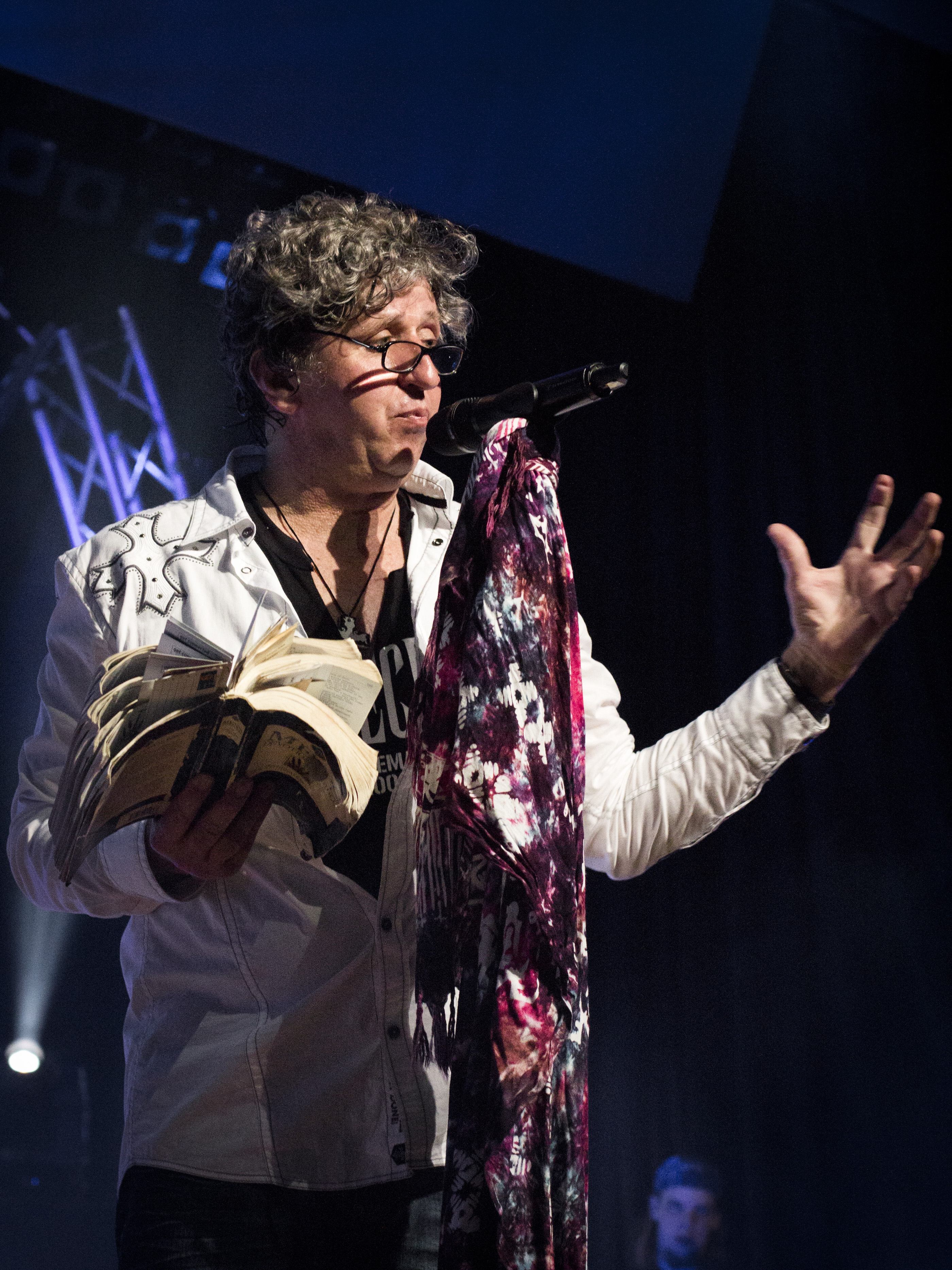 Whitecross at Elements of Rock 2013